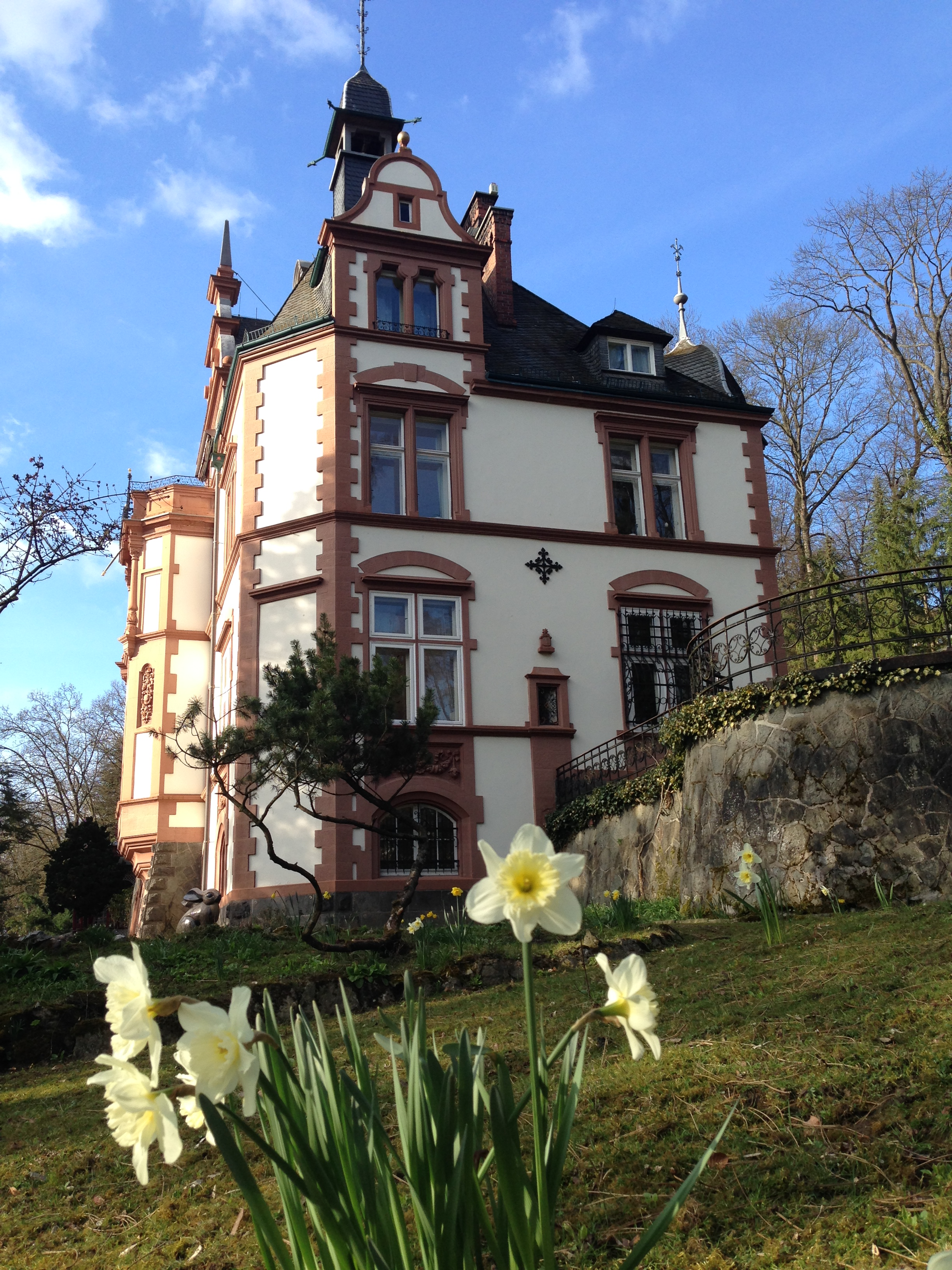 View from south west shows a varied layout of the facades at the time of historicism.